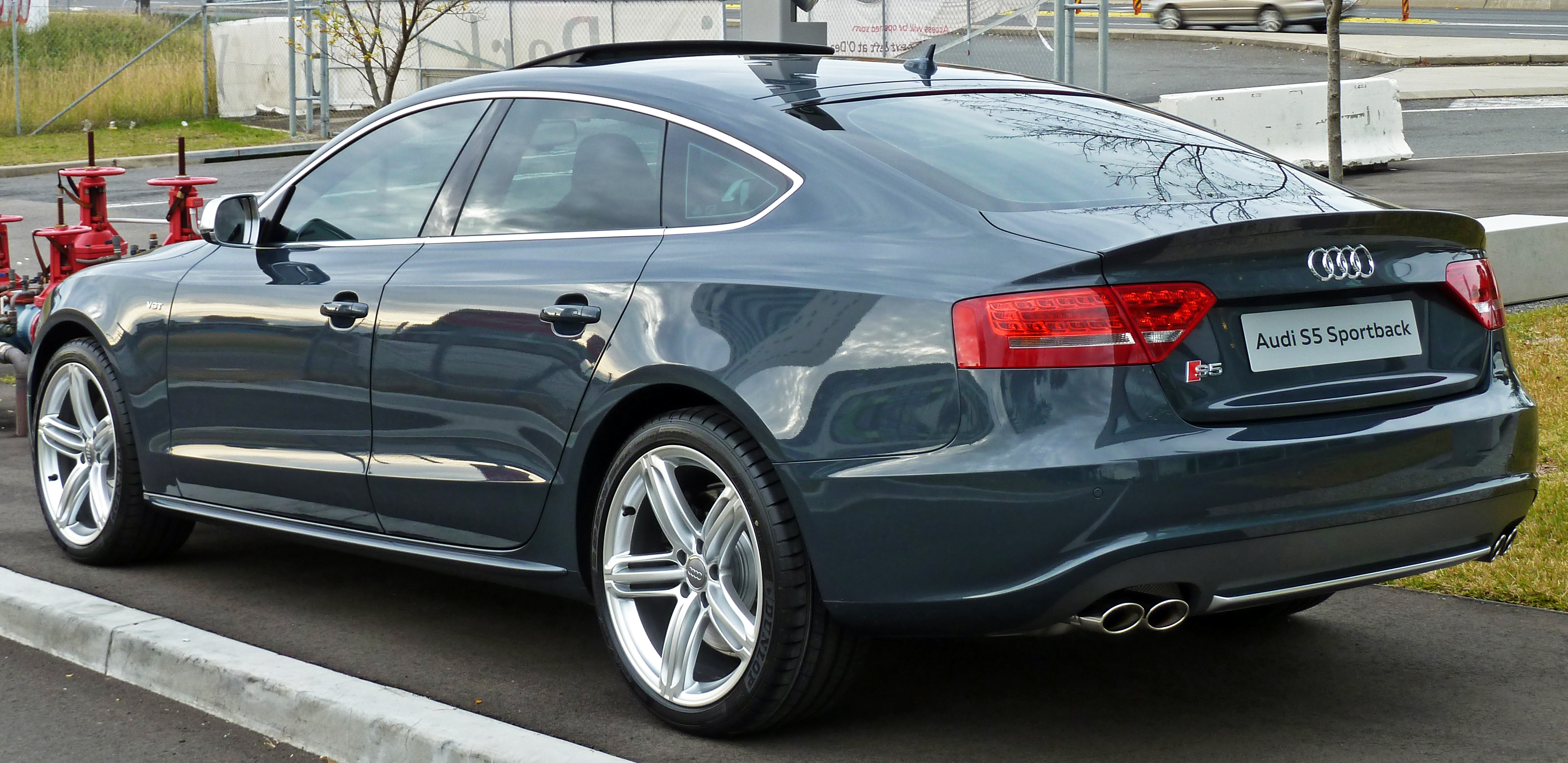 2010 Audi S5 (8T) Sportback. Photographed at the Audi Centre Sydney, Zetland, New South Wales, Australia.